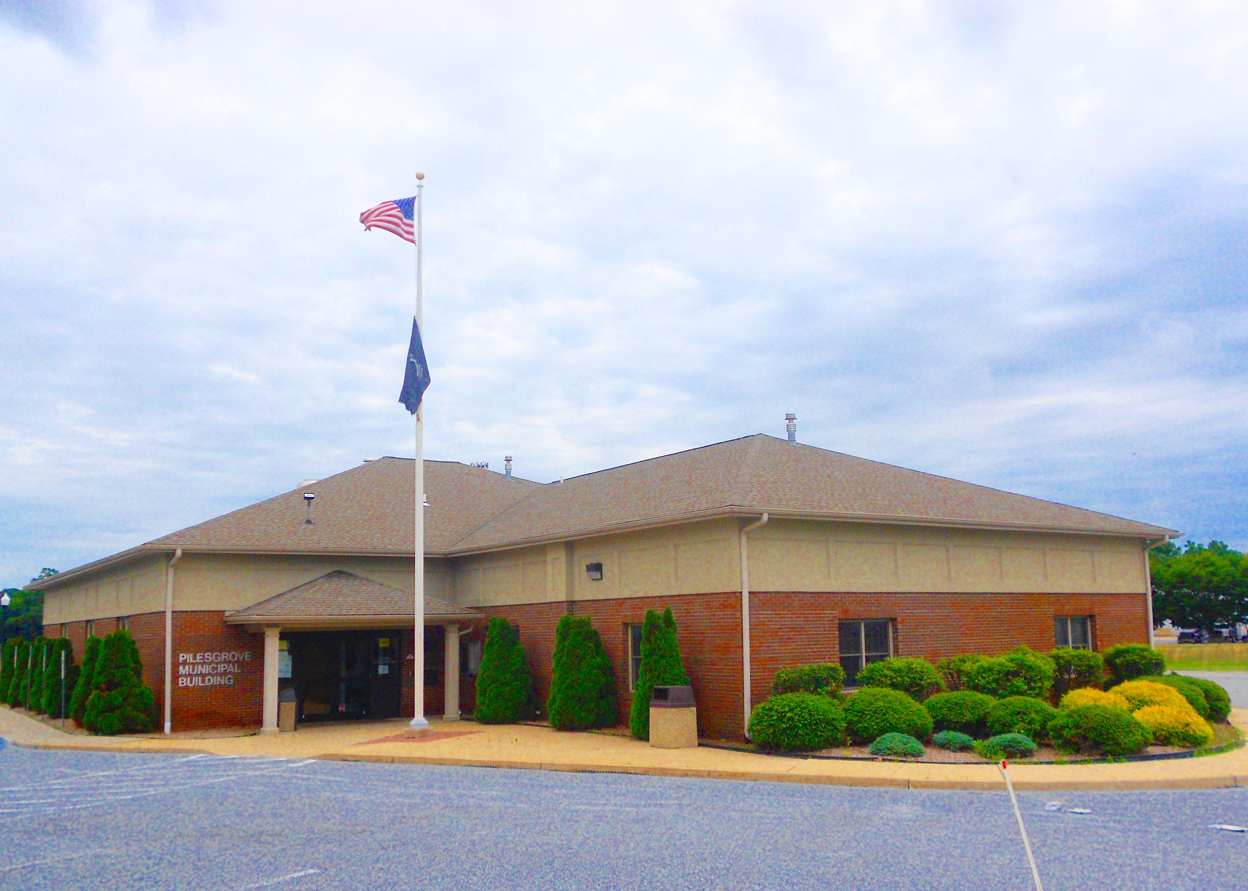 Pilesgrove Township Municipal Building in Salem County, New Jersey. Near Woodstown